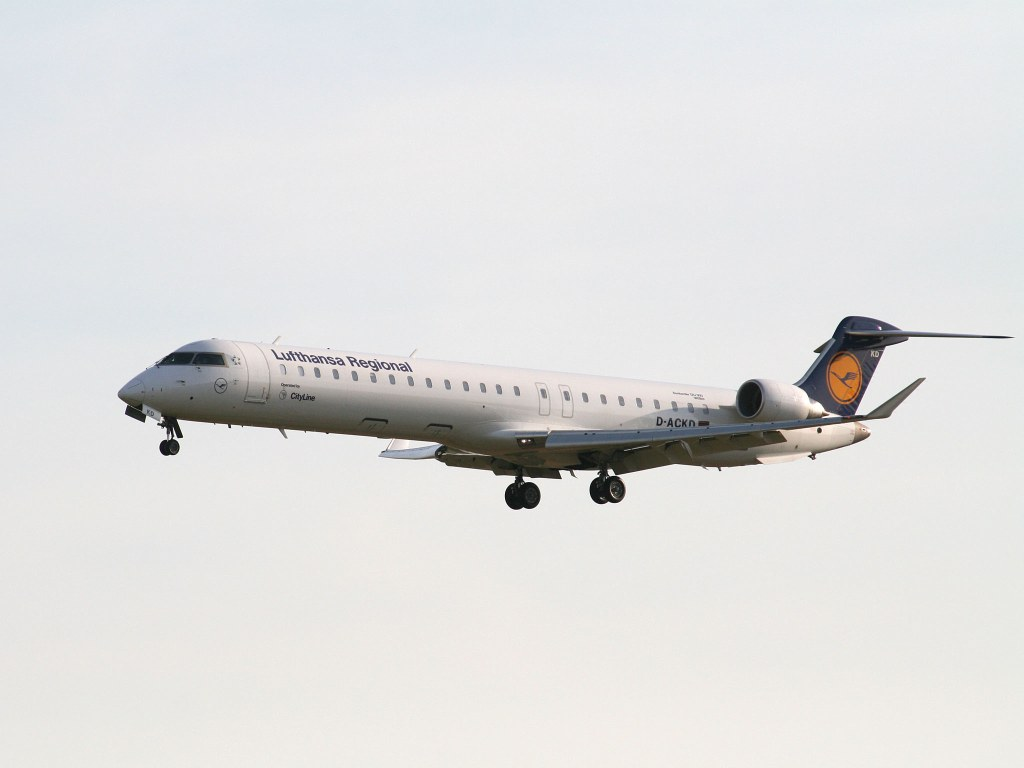 Lufthansa CityLine Bombardier CRJ900